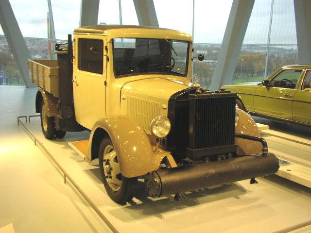 Mercedes-Benz L 1500 panel van with wood gazifier 1937.